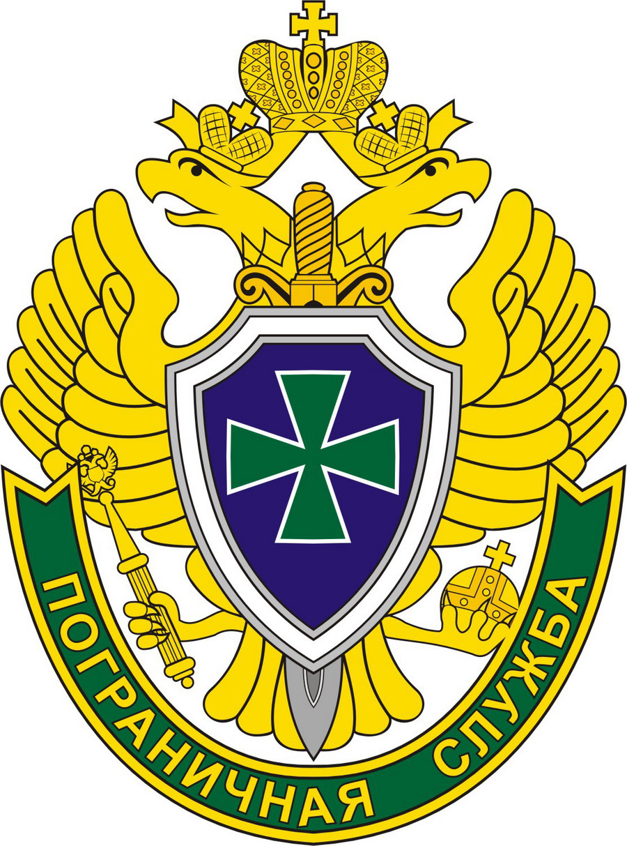 Russian Federation. Emblem of the Border Guard Service of the Federal Security Service.